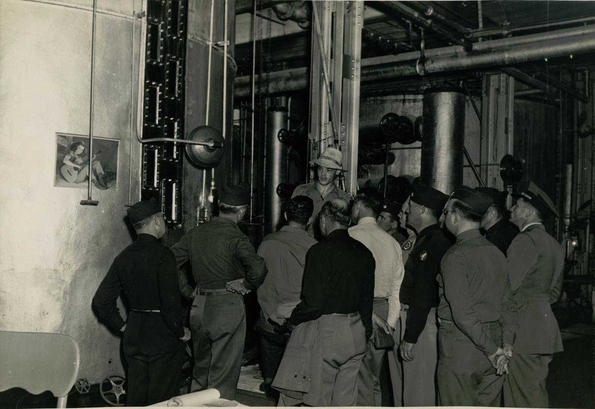 Civil Affairs Staging Area officers receive training at a water purification plant in Camp Parks, CA.